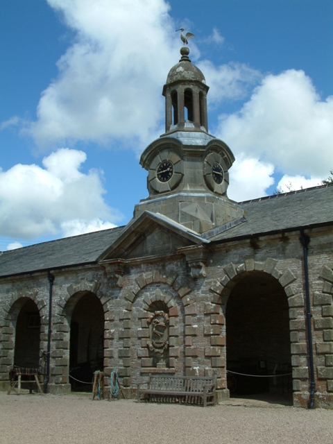 Stableyard, Arlington Court